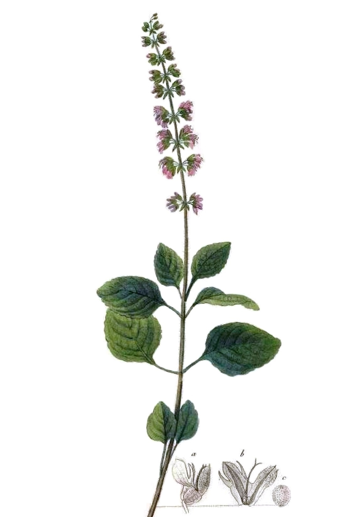 Fig. 2. Platostoma africanum P.Beauv.